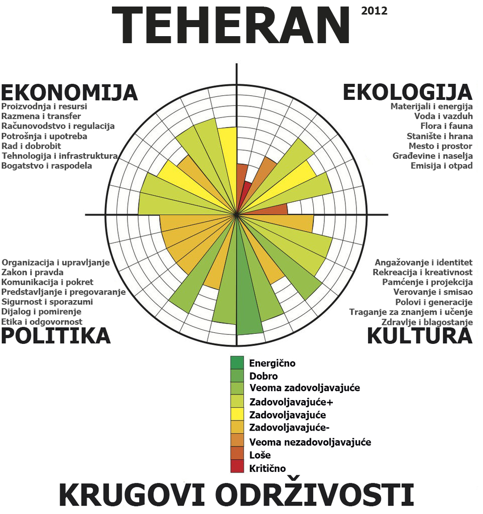 Profil Teherana, nivo 1, 2012.